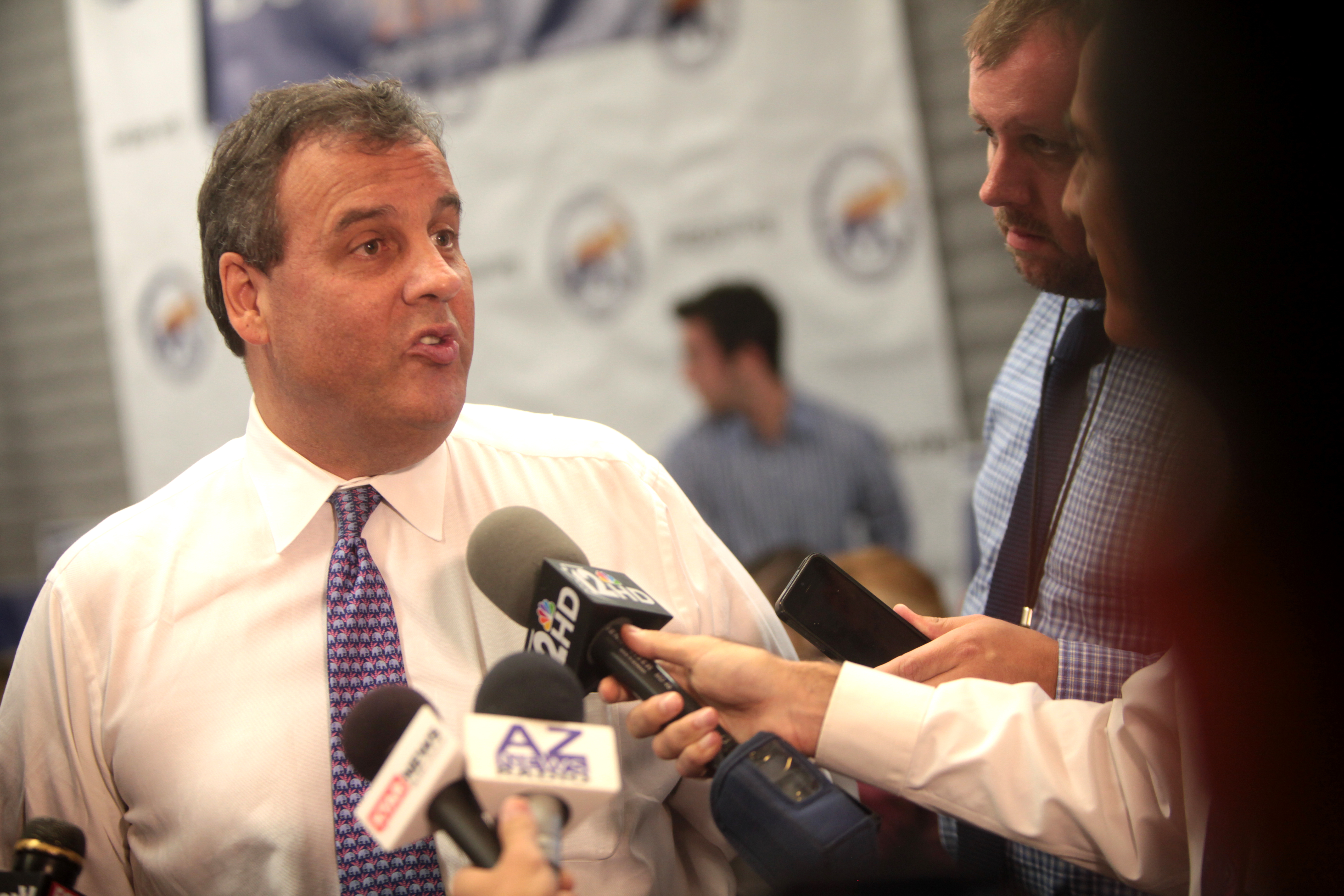 Chris Christie speaking at an event with Gubernatorial candidate Doug Ducey.